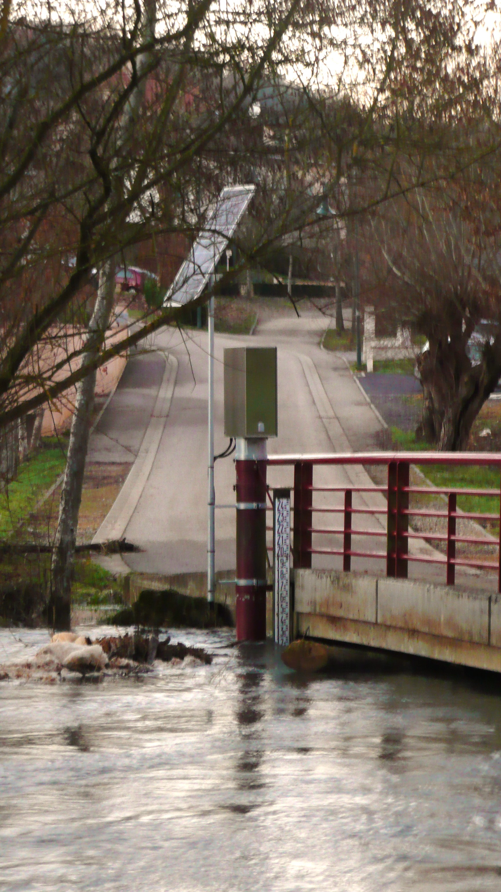 Jezainville. France. Patureaux Bridge. Hydraulic station